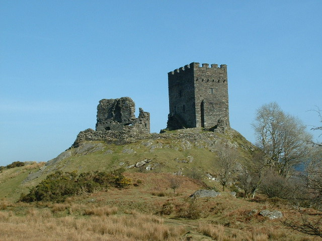 Dolwyddelan Castle